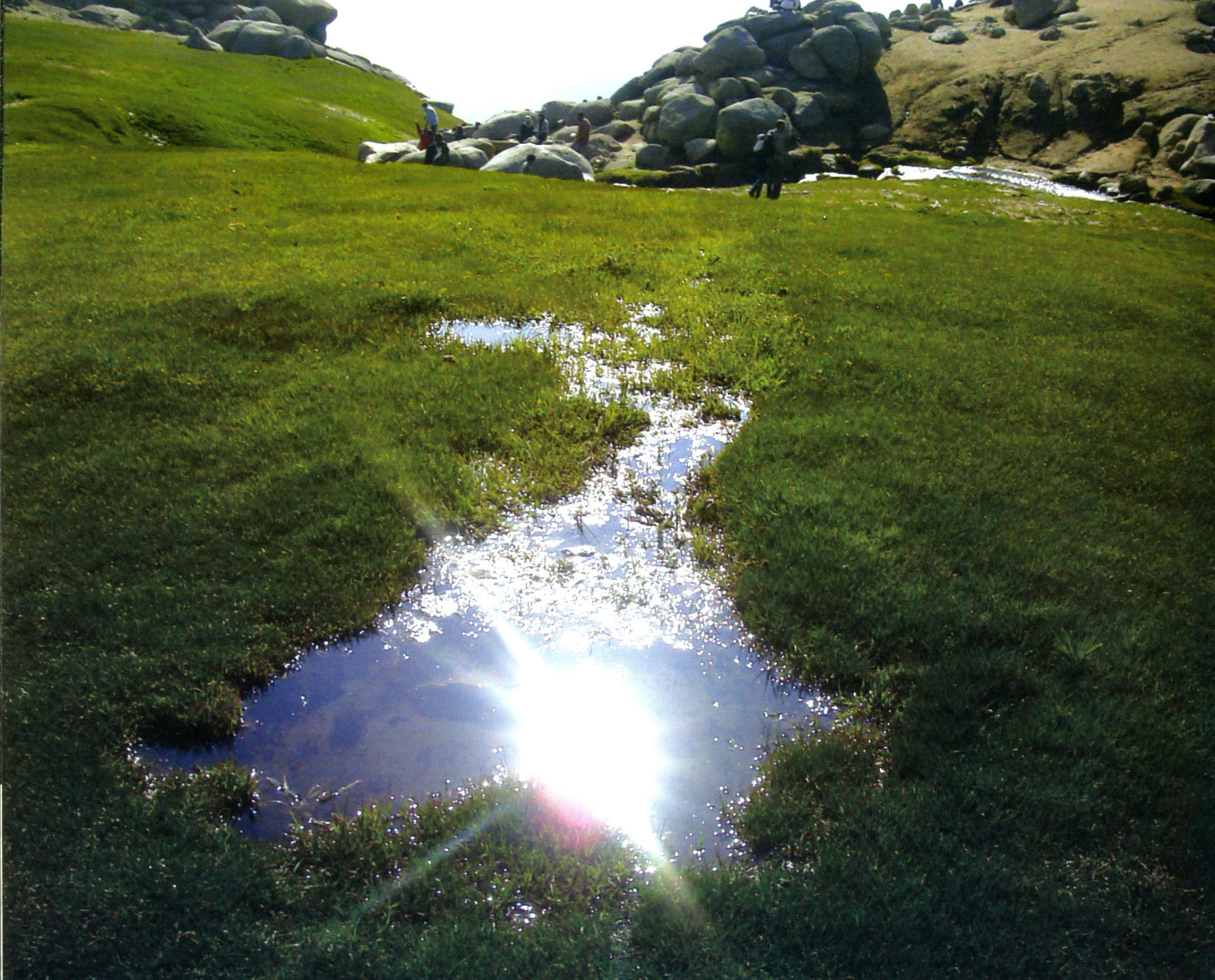 Meidan mishan